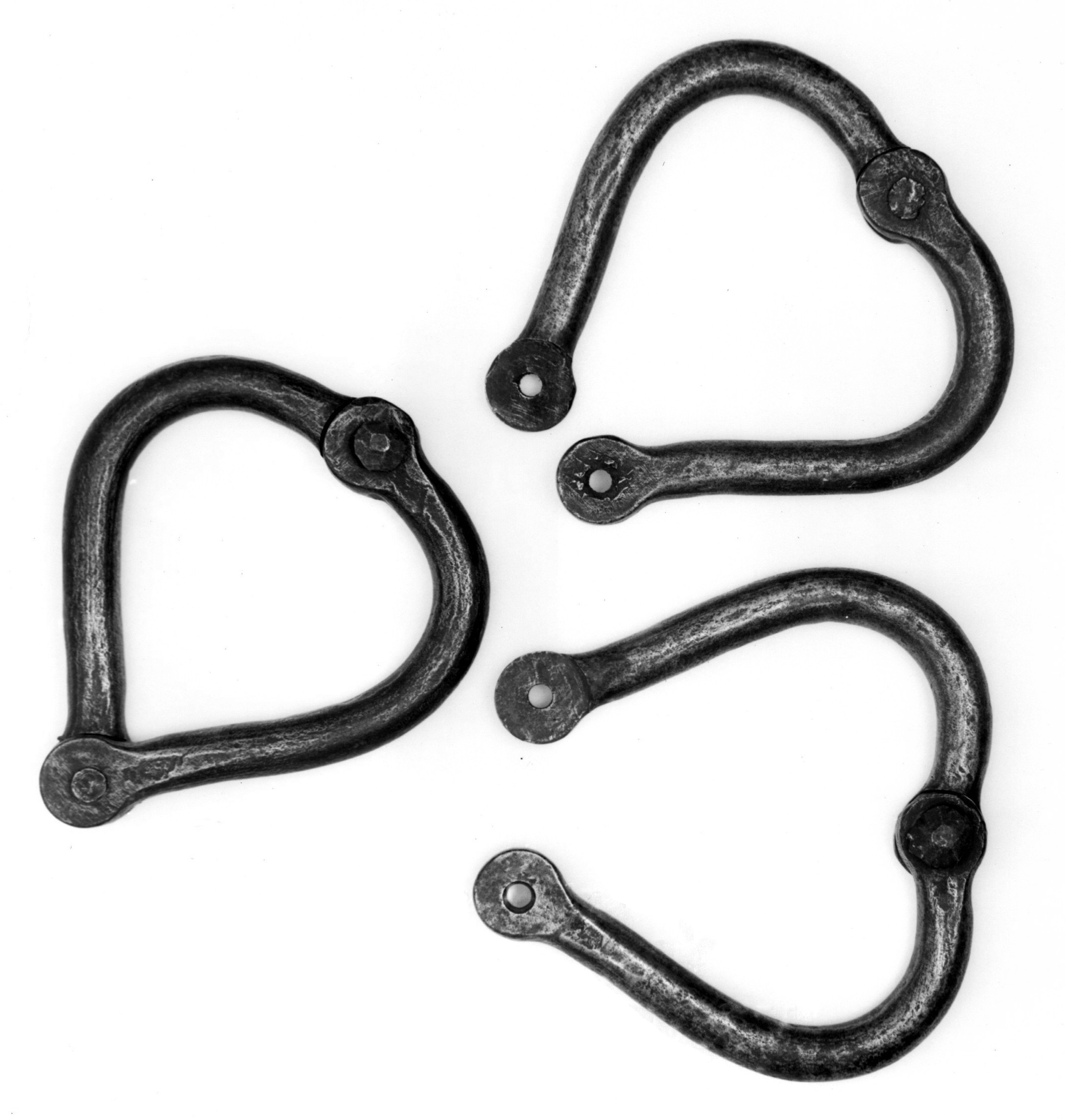 Handcuffs Used on the Booth Conspirators in the assassination of President Lincoln. The accused wore these during trial.